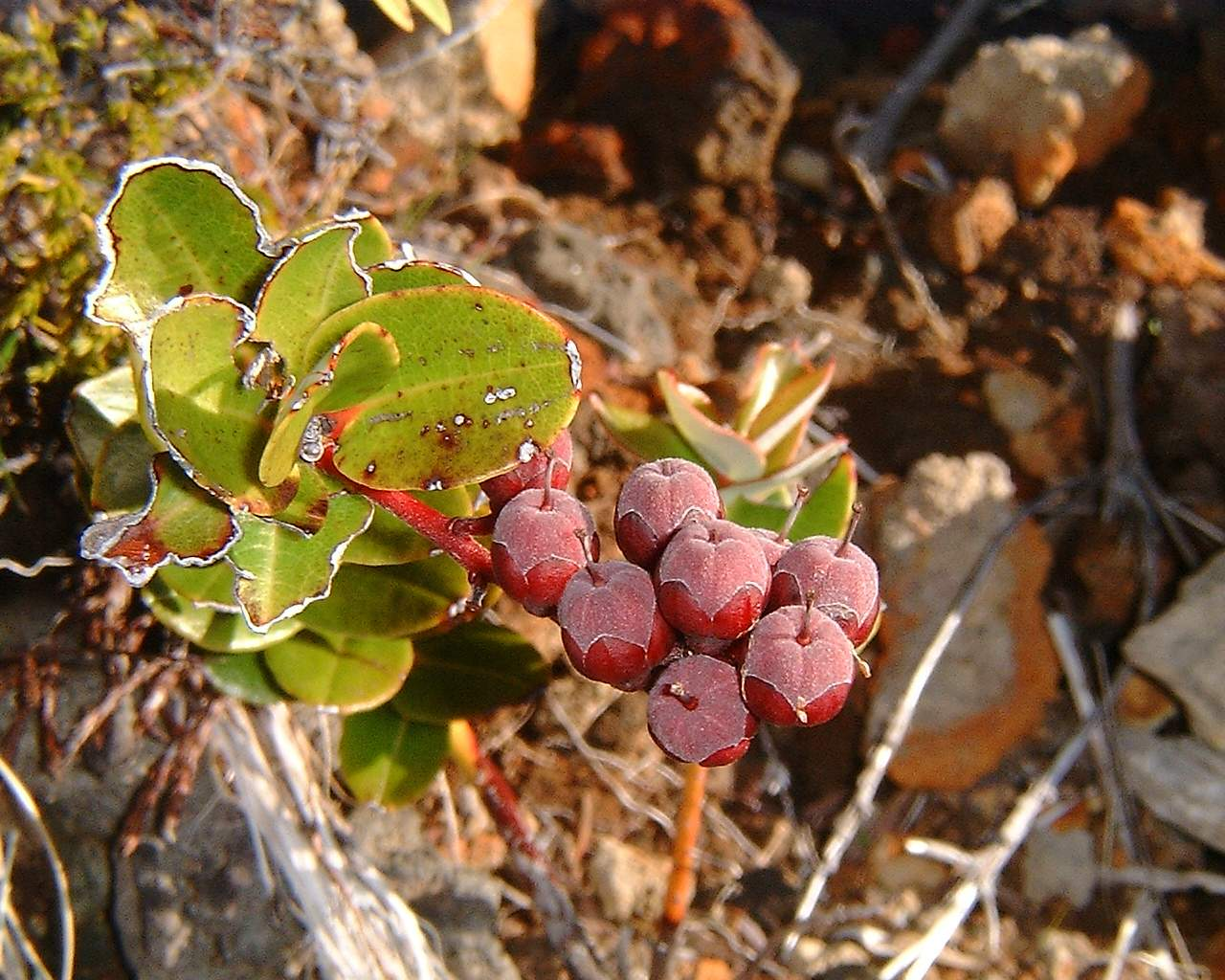 Agauria buxifolia - unripen fruits Réunion island